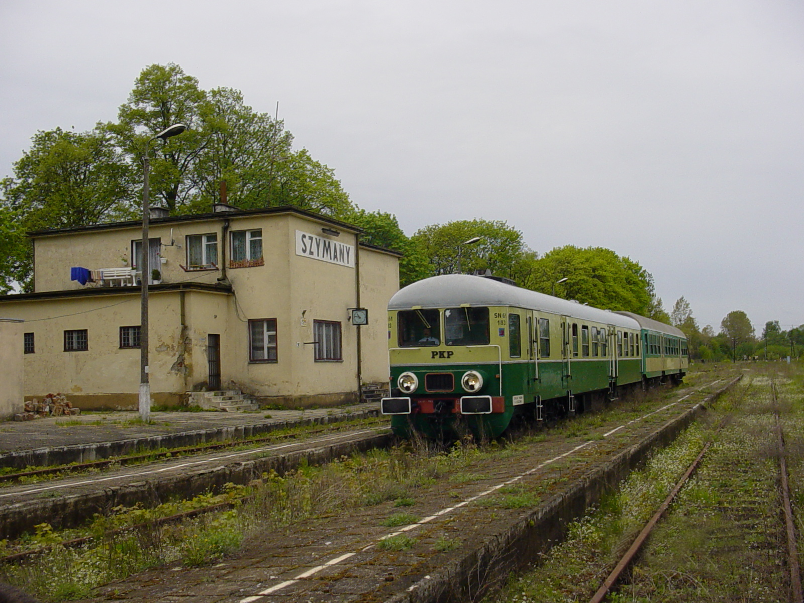 Train station in Szymany, Poland, on route 35, with a tourist train (diesel railcar SN61)